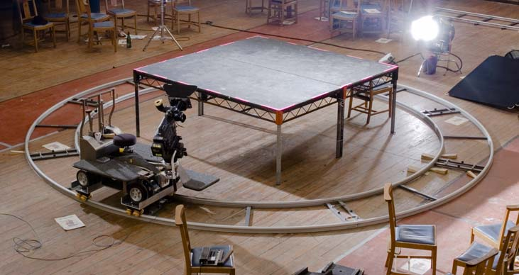 What appears to be a J.L. Fisher "Model 11" camera dolly mounted on circular track. Taken by Jack Kelly during the shooting of a music video in London. See also Image:Production still.jpg which includes humans for scale.